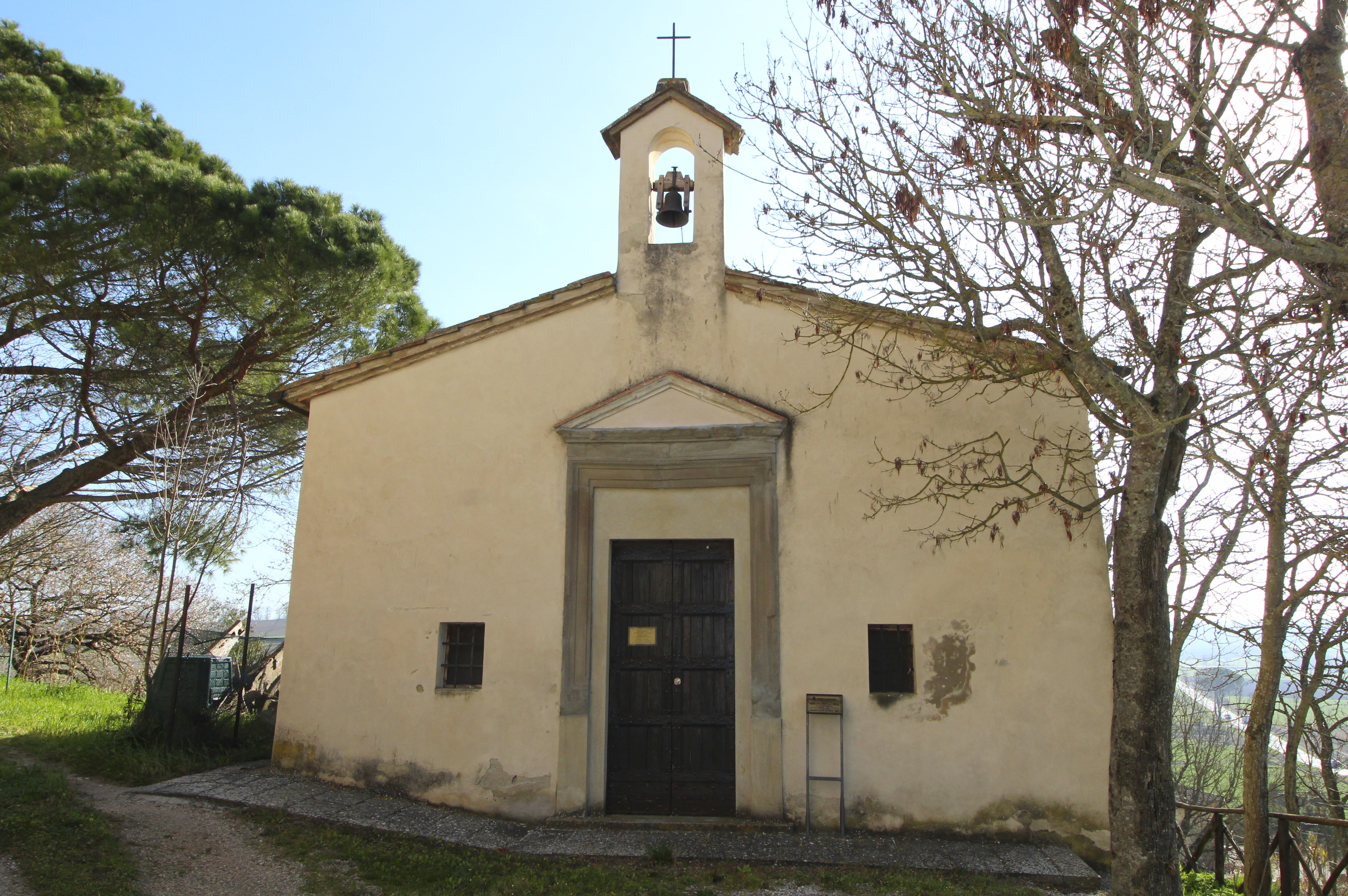 Church Santi Pietro e Ubaldo, loc. Monticelli, Castiglione della Valle, hamlet of Marsciano, Umbria, Italy